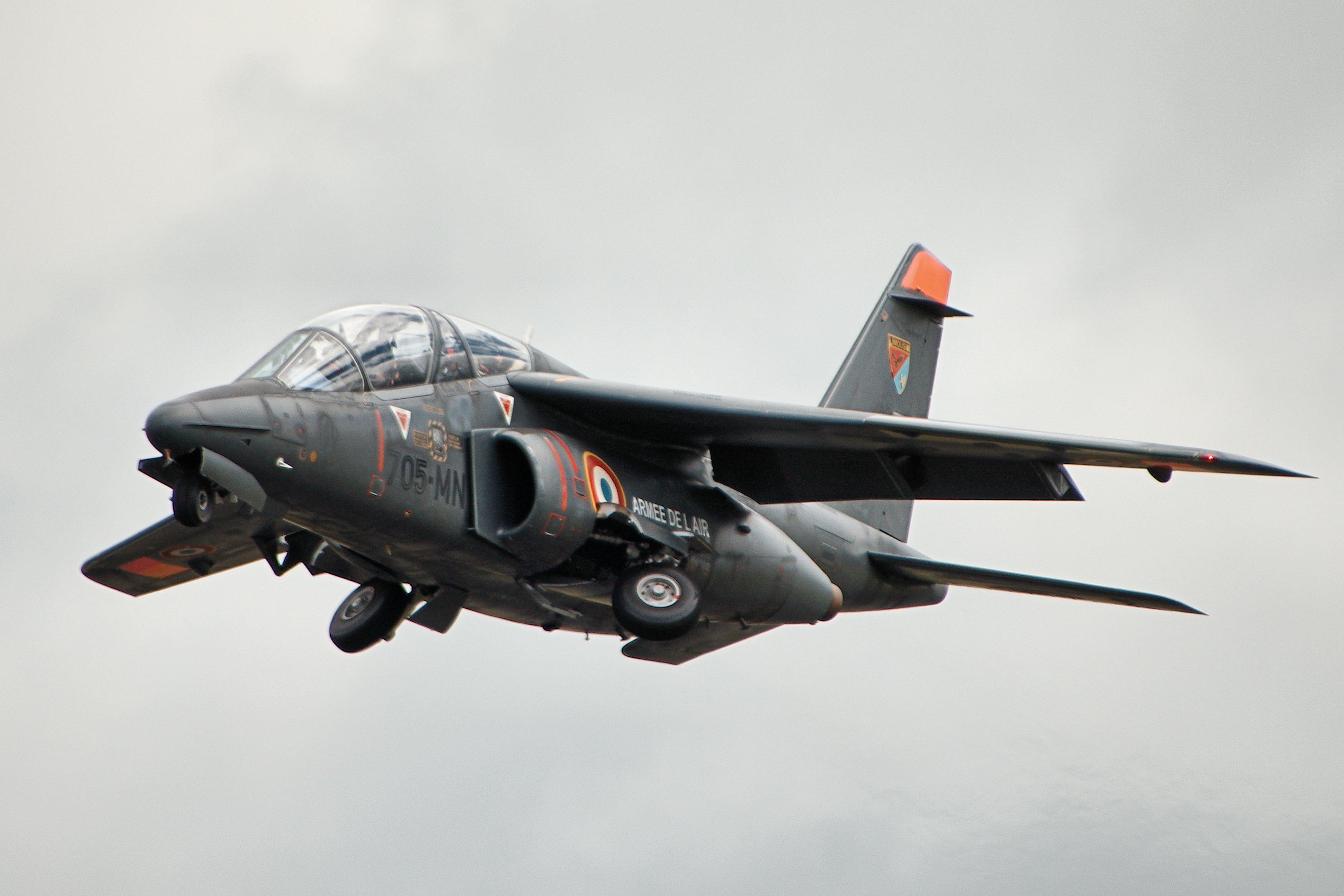 Alpha Jet at RIAT 2016